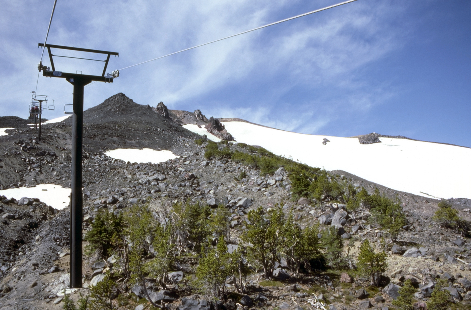 An easy trip to the summit. (Scanned from 35mm Kodachrome 25 slide)